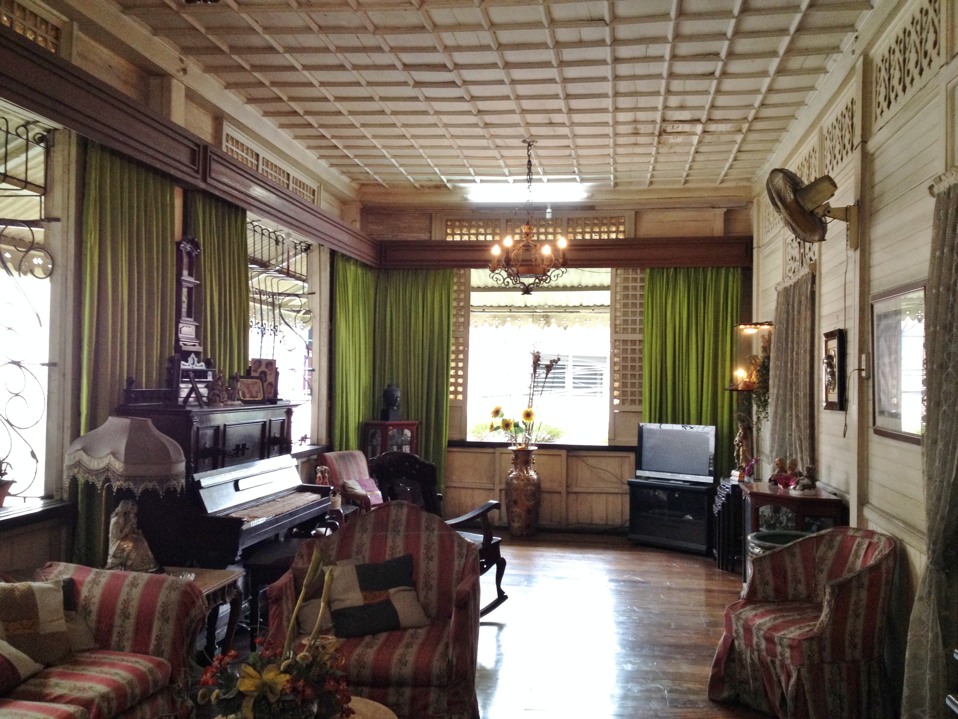 interior 5 Santos House Sta. Ana Manila